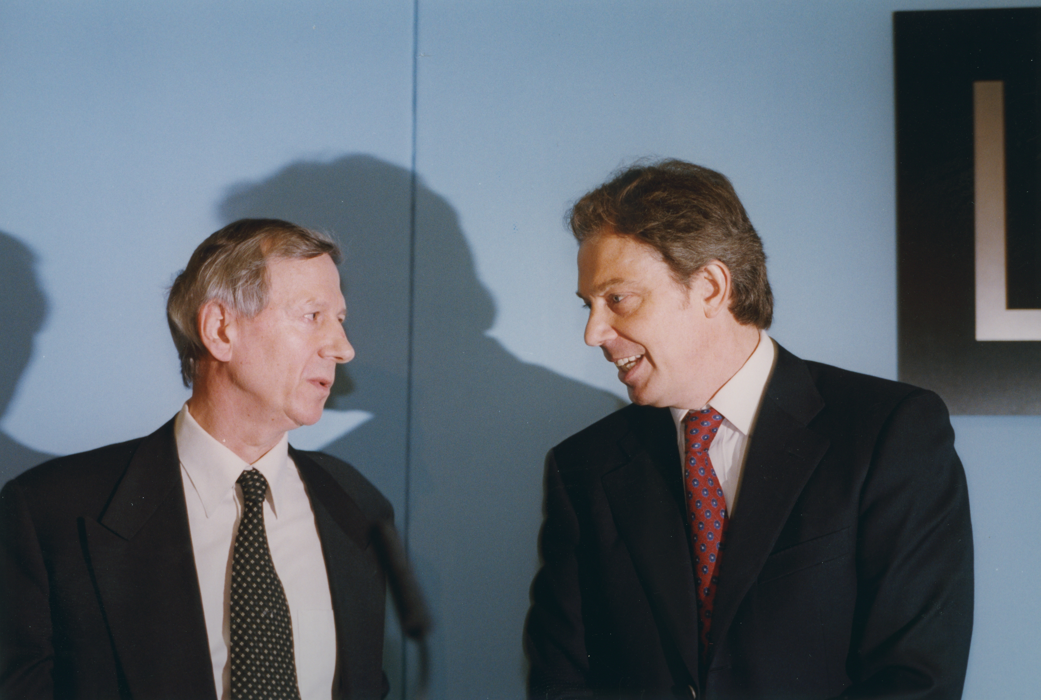 DFEE launch IMAGELIBRARY/865 Persistent URL